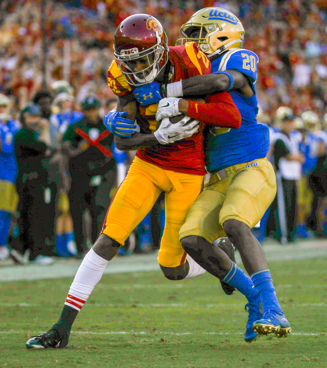 USC Trojans wide receiver Tyler Vaughns (21) 49-yard touchdown catch over UCLA Bruins defensive back Elisha Guidry (20) on the opening play of the fourth quarter; UCLA at USC. November 23, 2019, Los Angeles, CA